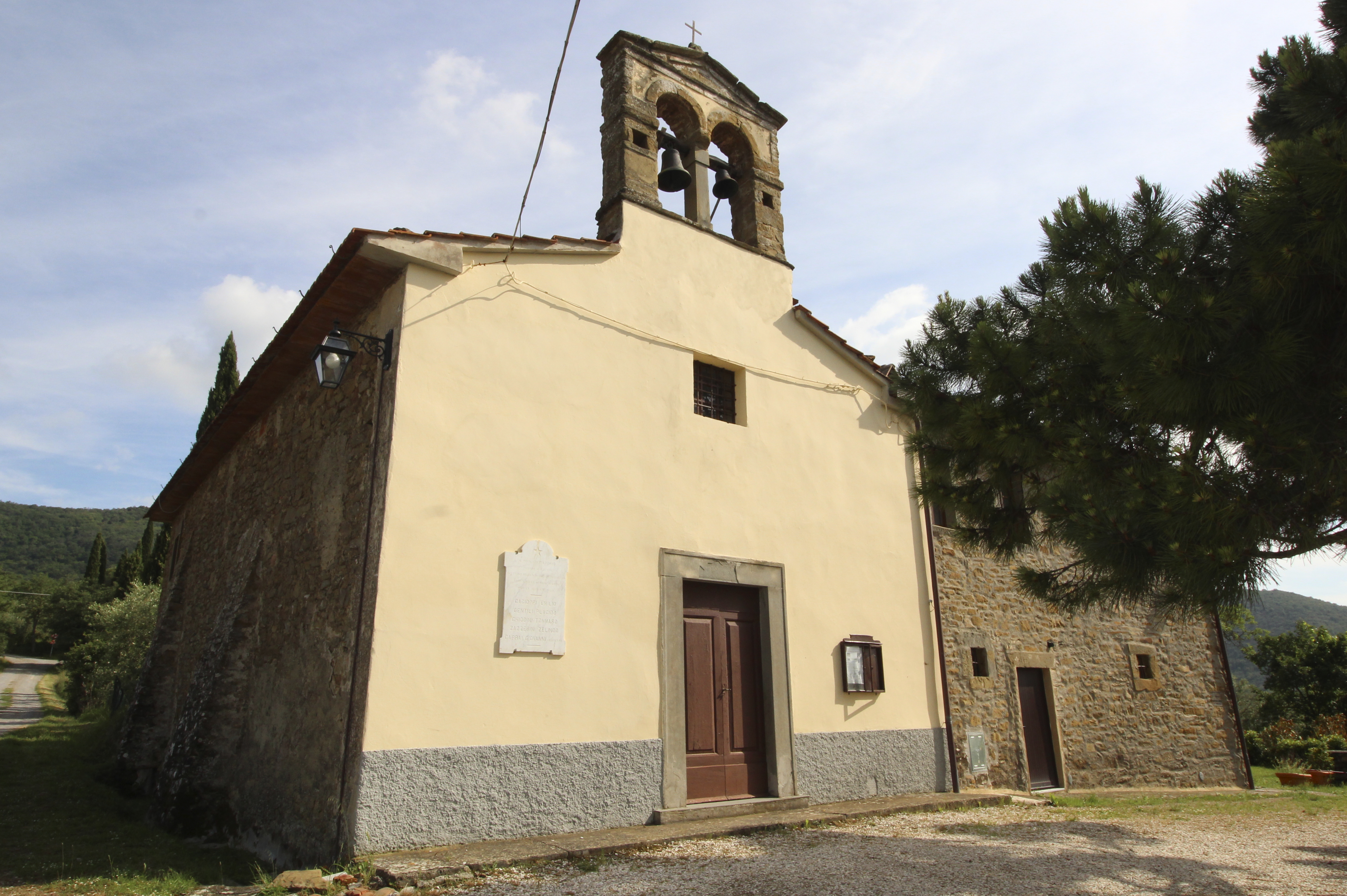 Church San Cristoforo, Piazzano, hamlet of Tuoro sul Trasimeno, Province of Perugia, Umbria, Italy